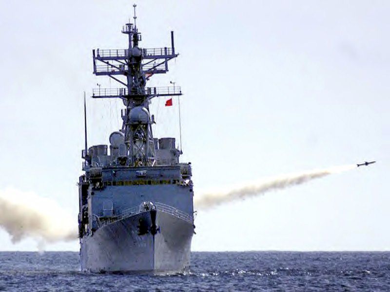 The Pacific Ocean, March 23 2000, USS Hewitt (DD 966) fires a NATO Sea Sparrow missile during a training exercise off the coast of southern California.